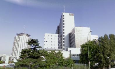 La Paz Hospital, Madrid